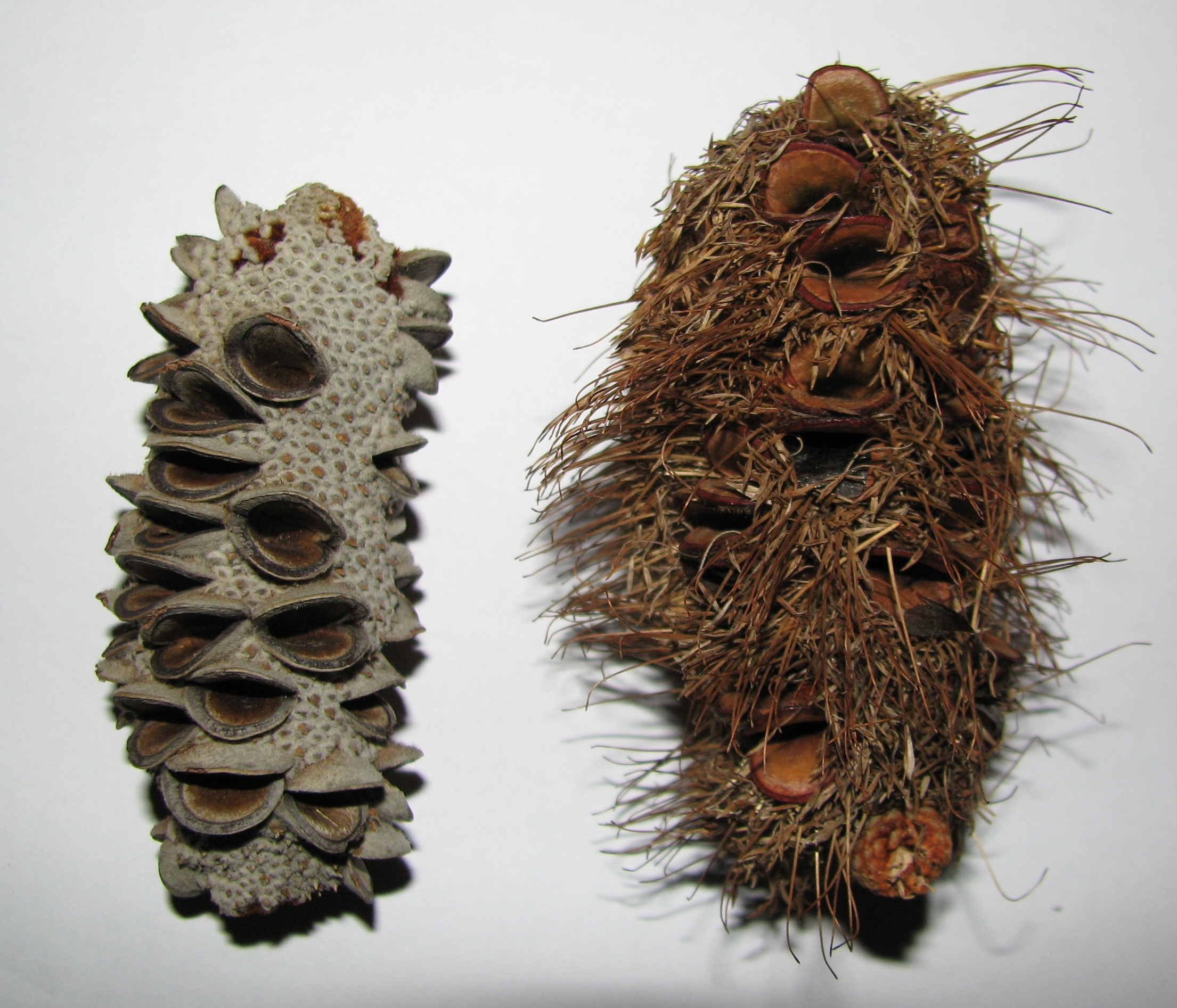 "Cones":Banksia integrifolia (left) fallen on foreshore, Banksia marginata (right) from a cultivated plant, both from Mornington Peninsula, Victoria, Australia